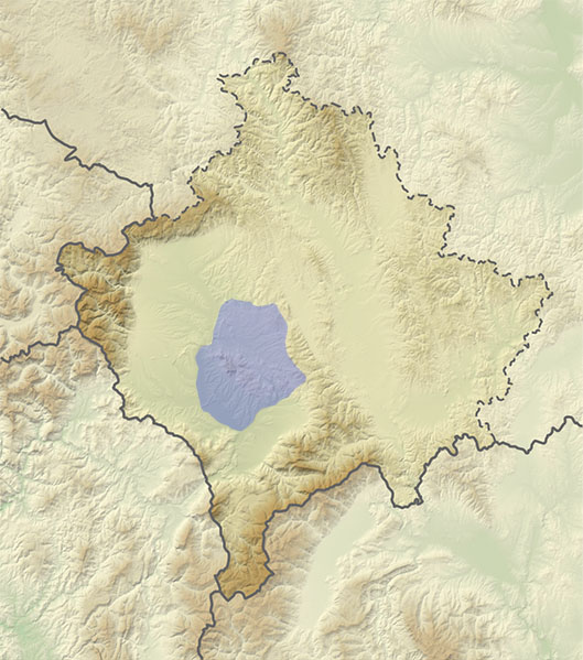 Prekoruplje region on relief map of Kosovo.